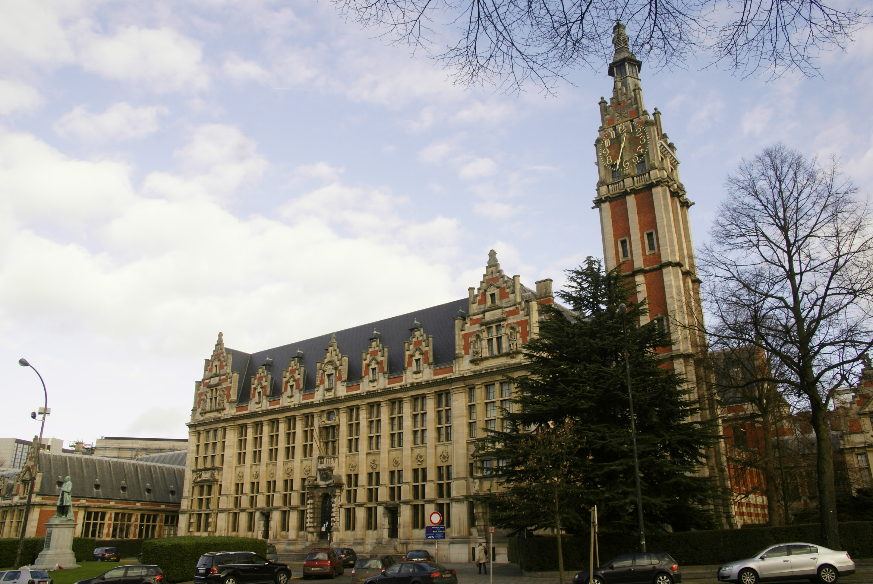 Clock tower on the Université Libre de Bruxelles (ULB)Campus du Solbosch in the City of Brussels